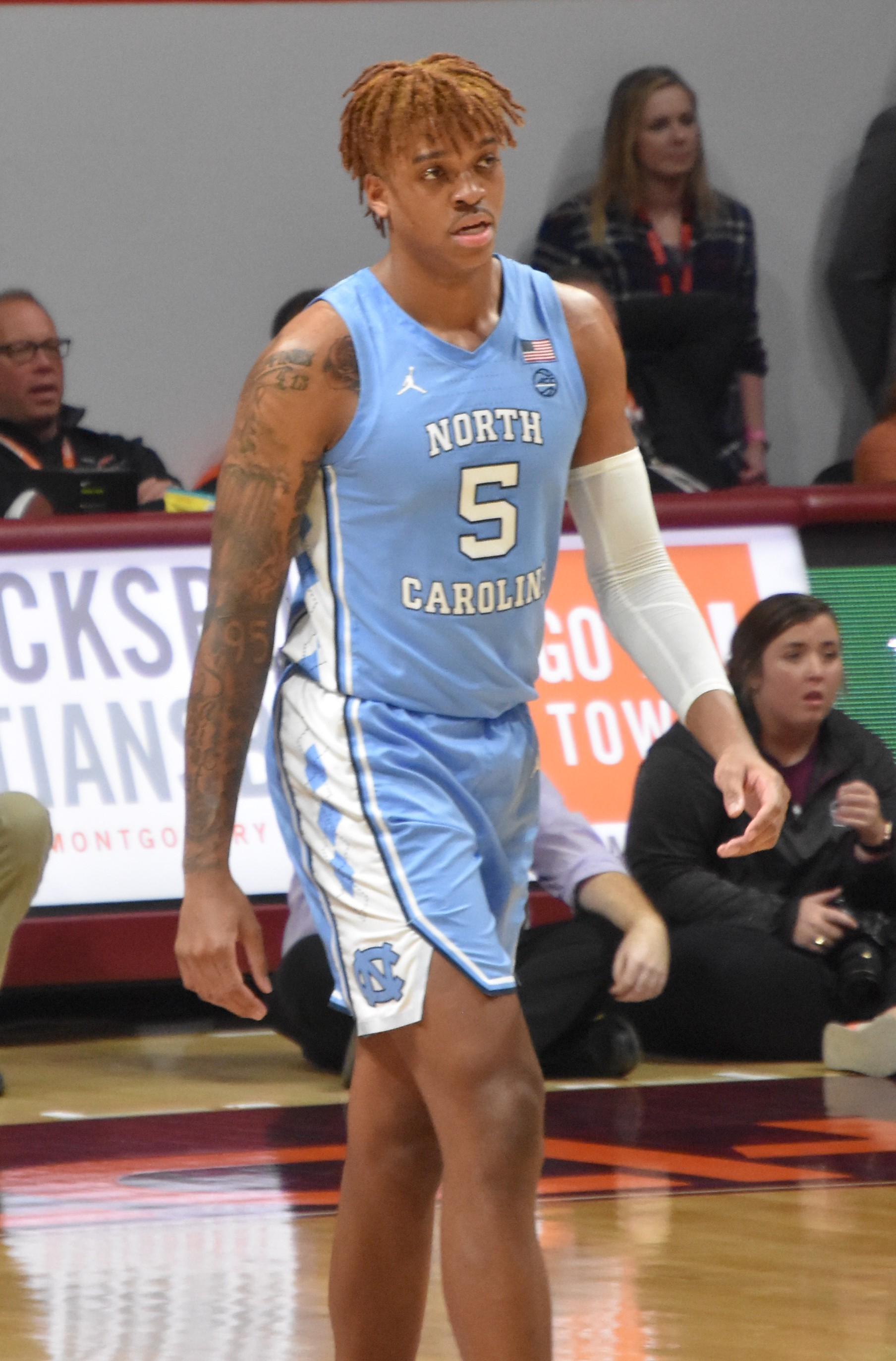 Armando Bacot on the floor for the Tarheel in their game with the Hokies at Cassell Coliseum